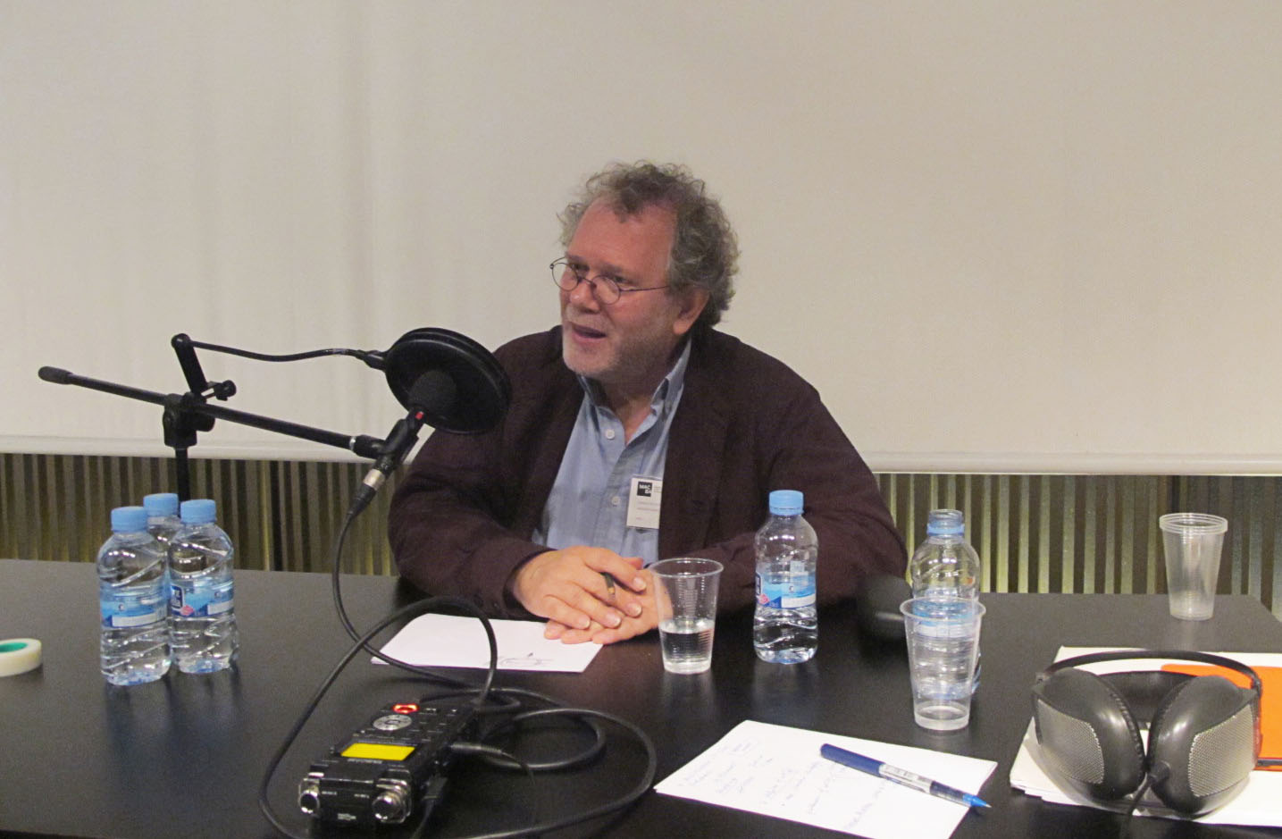 Georges Didi-Huberman at Radio Web MACBA